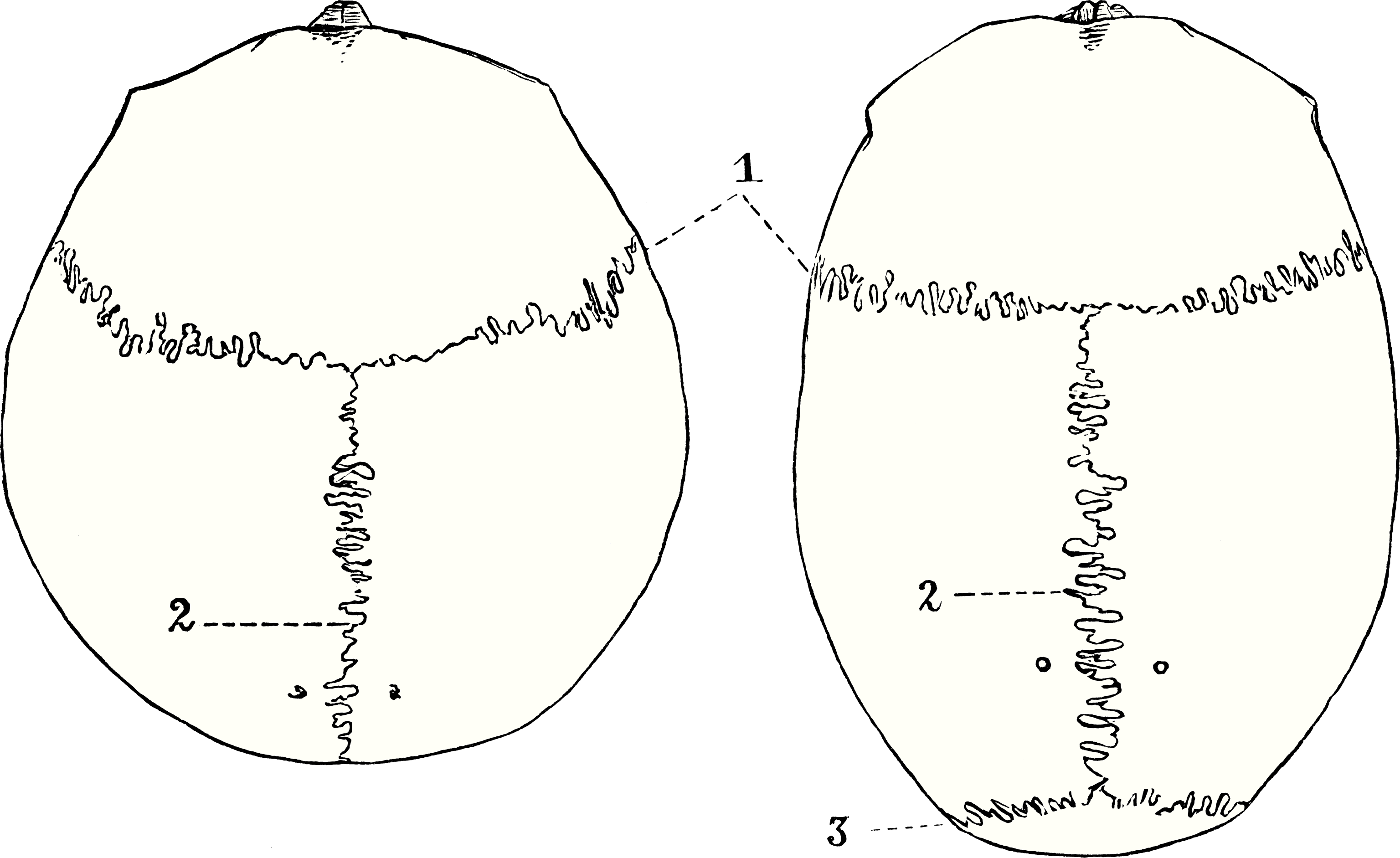 Original figure caption (translated): “Two European skulls seen from above. a [i.e. right] Long skull. b [i.e. left] Short skull. 1. coronal suture. 2. sagittal suture. 3. lambdoid suture.”